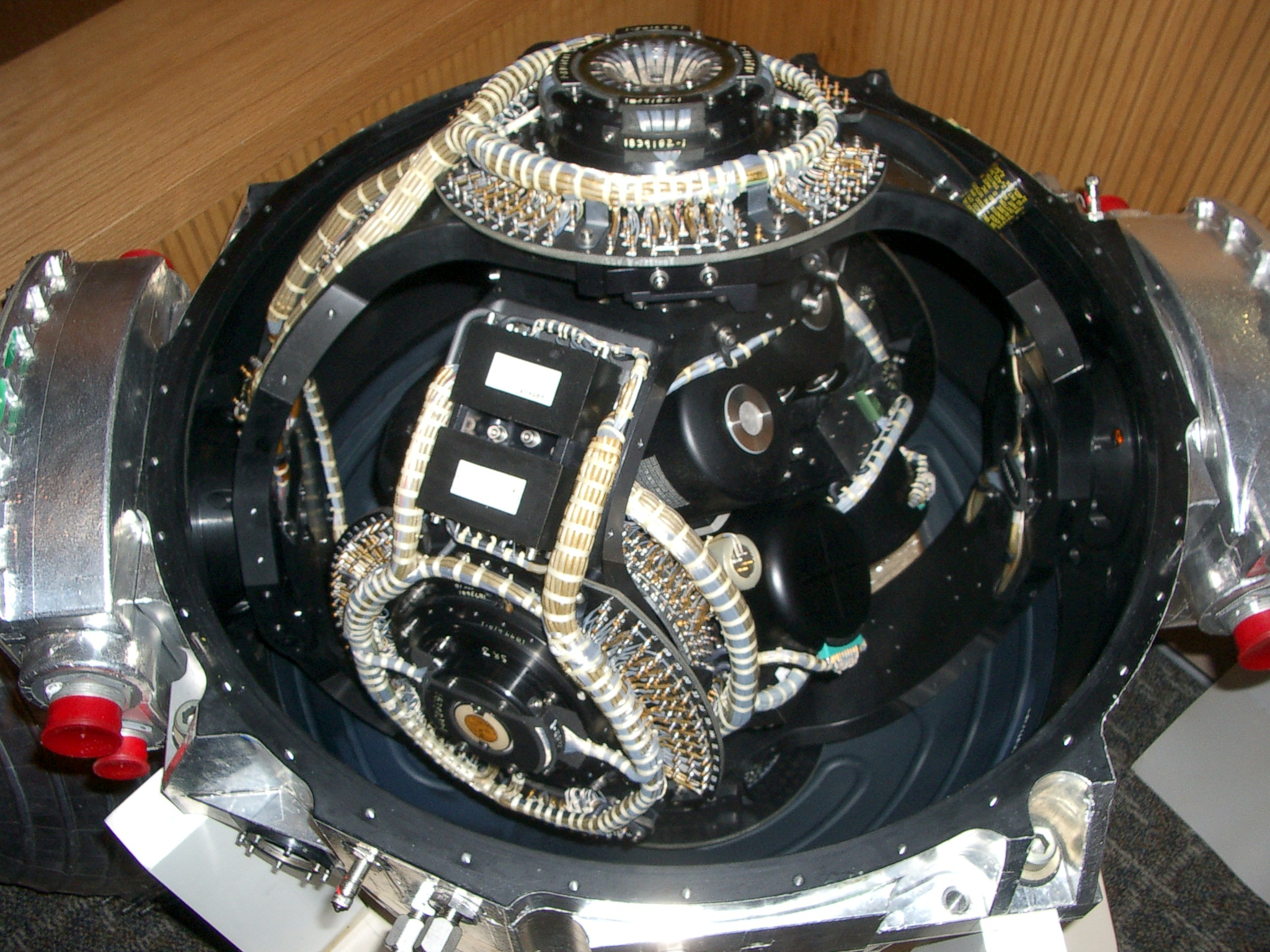 Teterboro, ST-124 uncovered. Two AB5-K8 gyros are seen at the center, mounted on the inner gimbal. The wiring harness in the lower left is attached to the middle gimbal, and the harness at the top is on the outer gimbal. Picture taken 11 Nov 2004 by Edgar Durbin at Honeywell Defense Avionics Systems in Teterboro, NJ. This is the plant where the ST-124 was built by Bendix Eclipse-Pioneer Division in the 1960-70s.